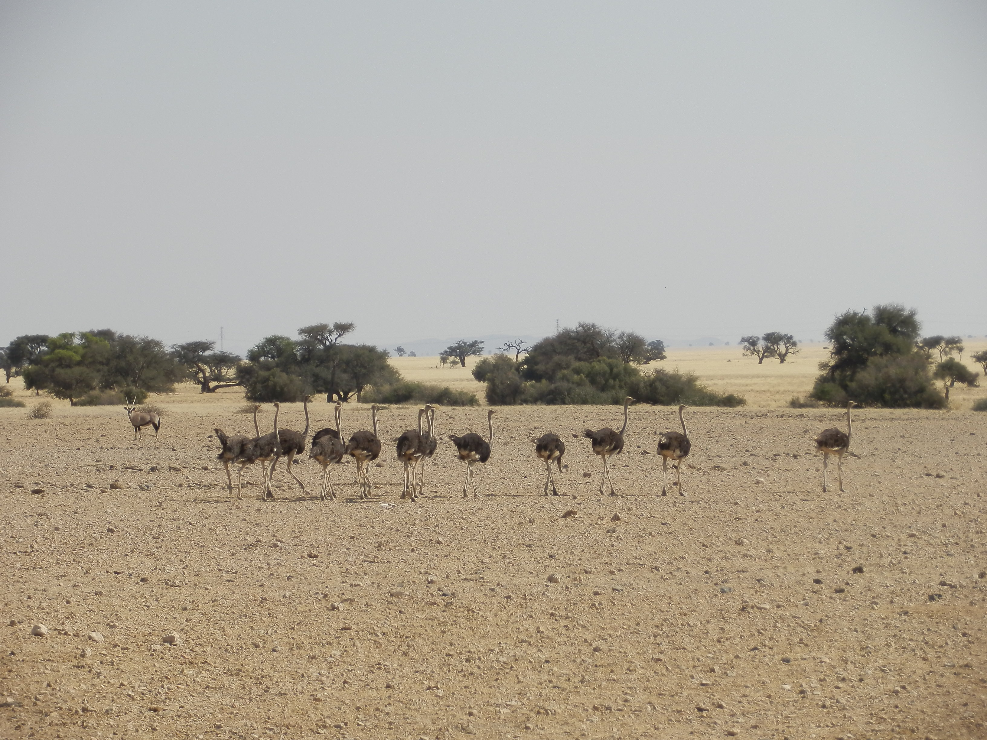 Flock of ostriches (Southern Ostrich - Struthio camelus australis) near a watering hole in a game preserve east of Swakopmund, Namibia